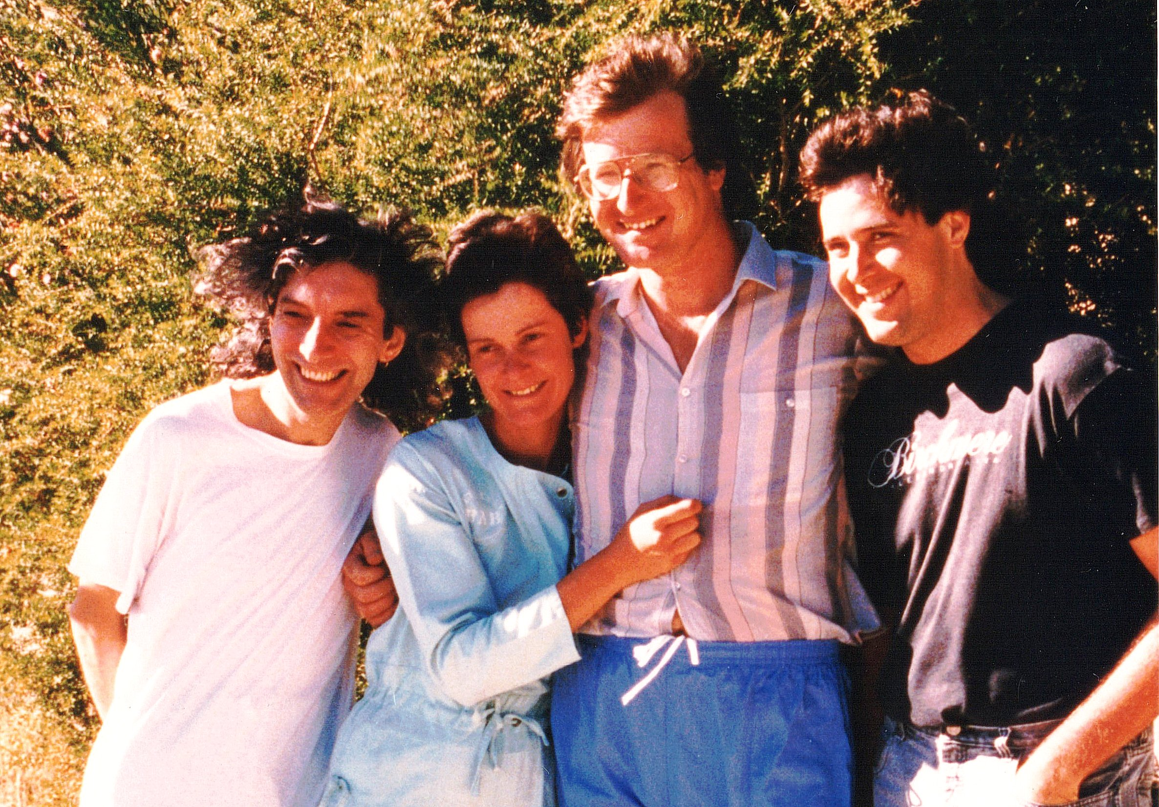 Country musicians Albert Lee (left) and Vince Gill (right) with hosts Ann and Andrew Pattison in Australia, February 1988 (Tony Rees photograph)